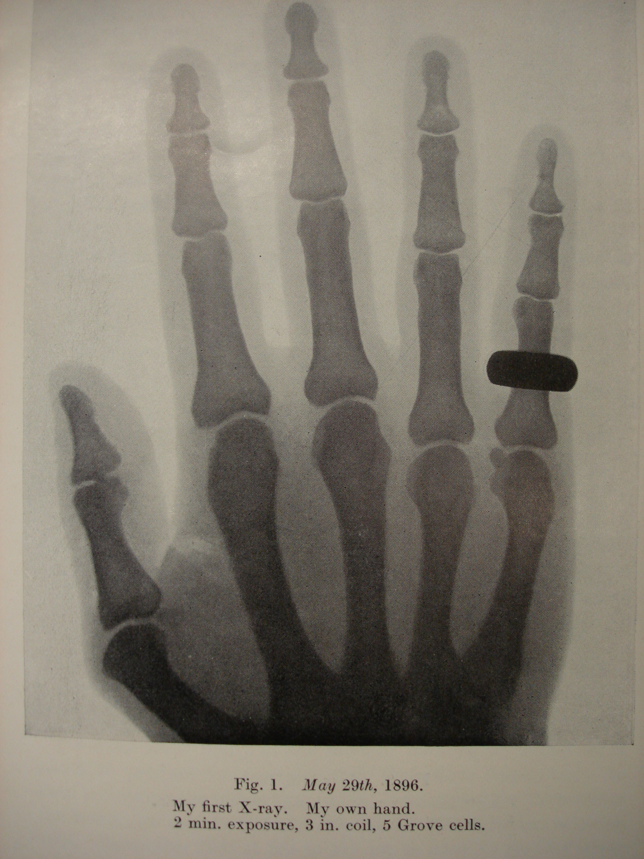 First x-ray taken in Liverpool, 1896, by Charles Thurstan Holland. Liverpool's Royal Southern Hospital had the UK's first x-ray machine.